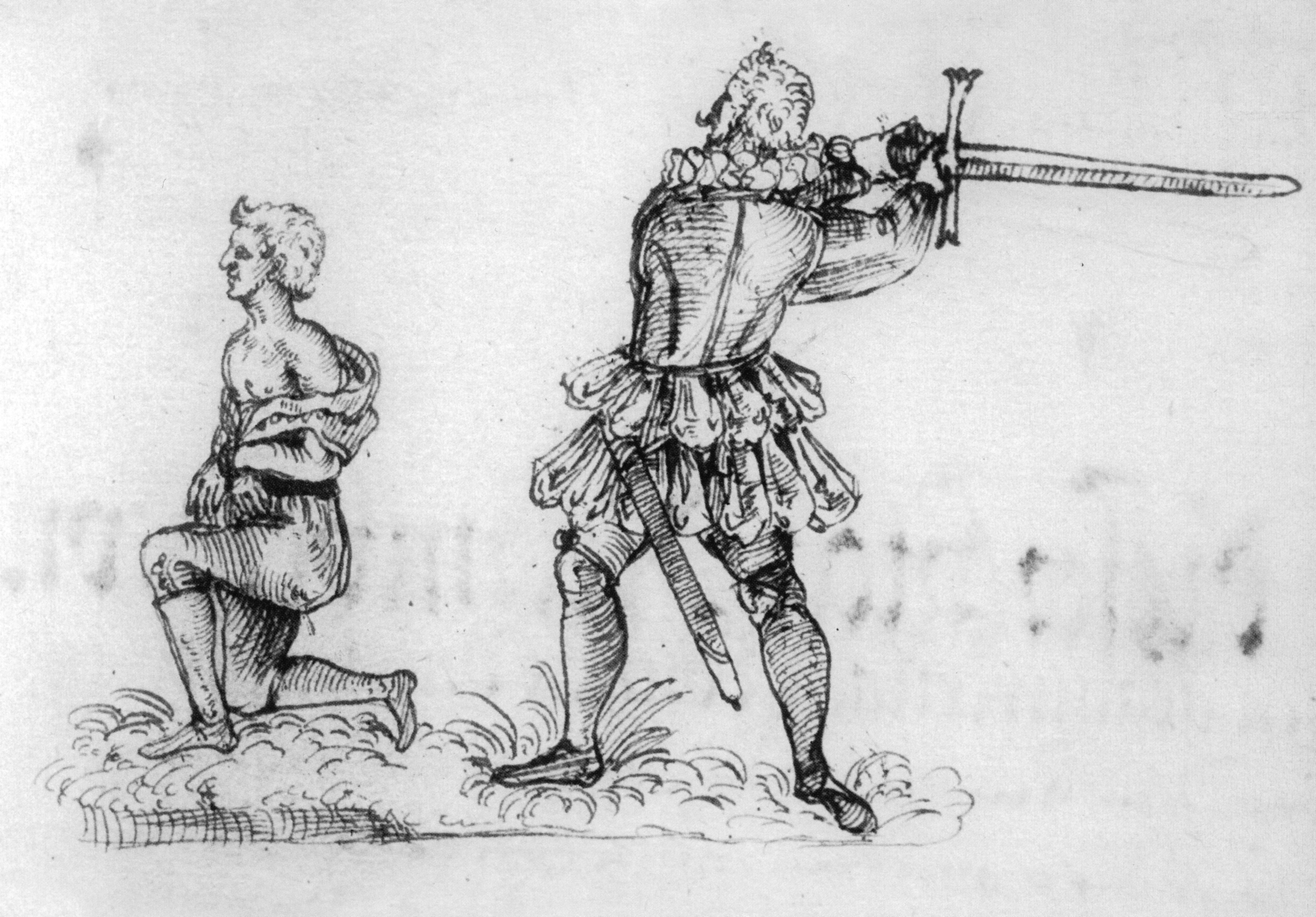 The executioner Franz Schmidt executing Hans Fröschel on May 18, 1591. This drawing in the margins of a court record is the only surviving fully reliable portrait of Franz Schmidt.